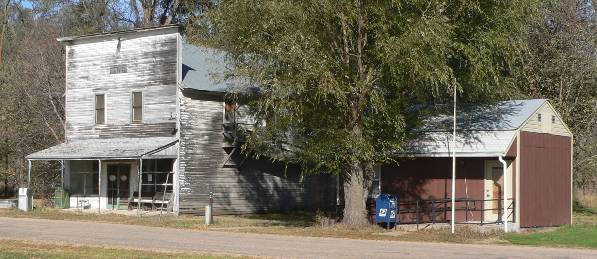 Post office (apparently closed) and I.O.O.F. Hall in Westerville, Nebraska.